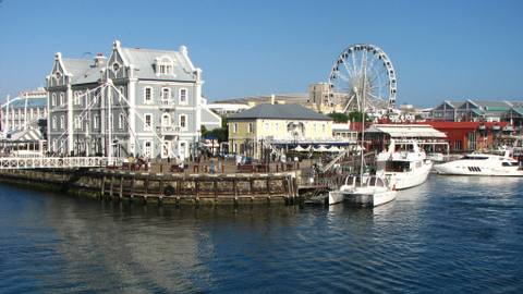 Waterfront capetown detail